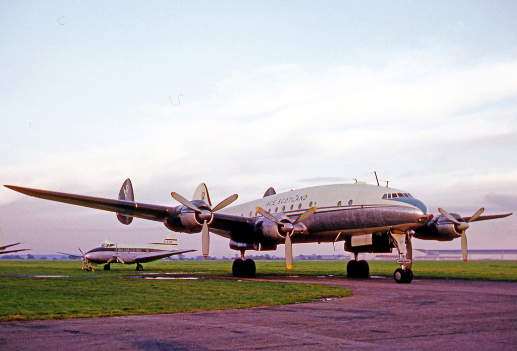 ACE Scotland Lockheed L-749A Constellation G-ASYS at Coventry in October 1966